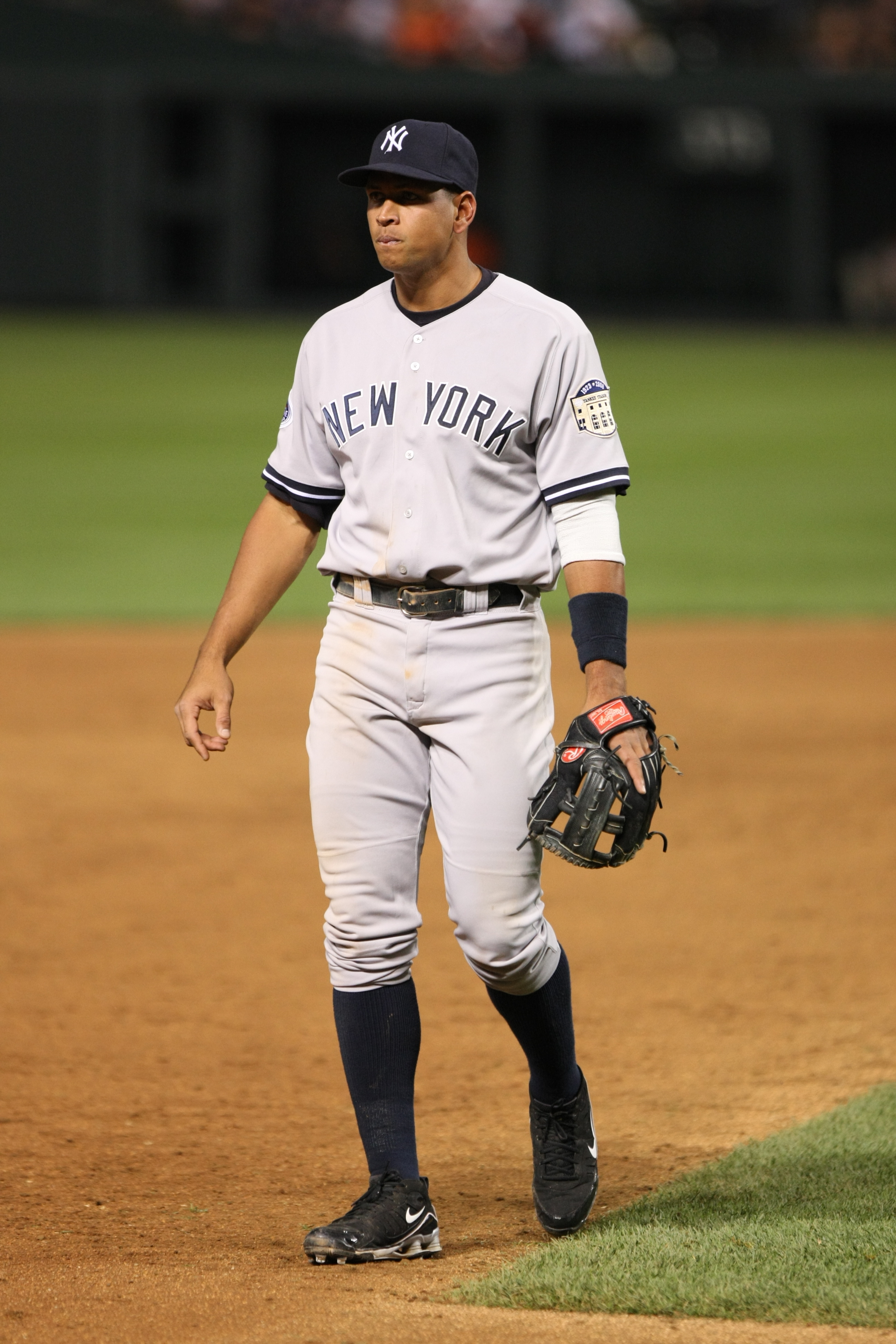 Alex Rodriguez in the field for a game on May 28, 2008.